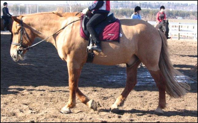 Finnhorse